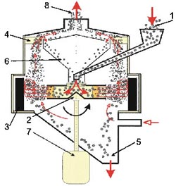 A principal scheme of a vertical shaft impact mill